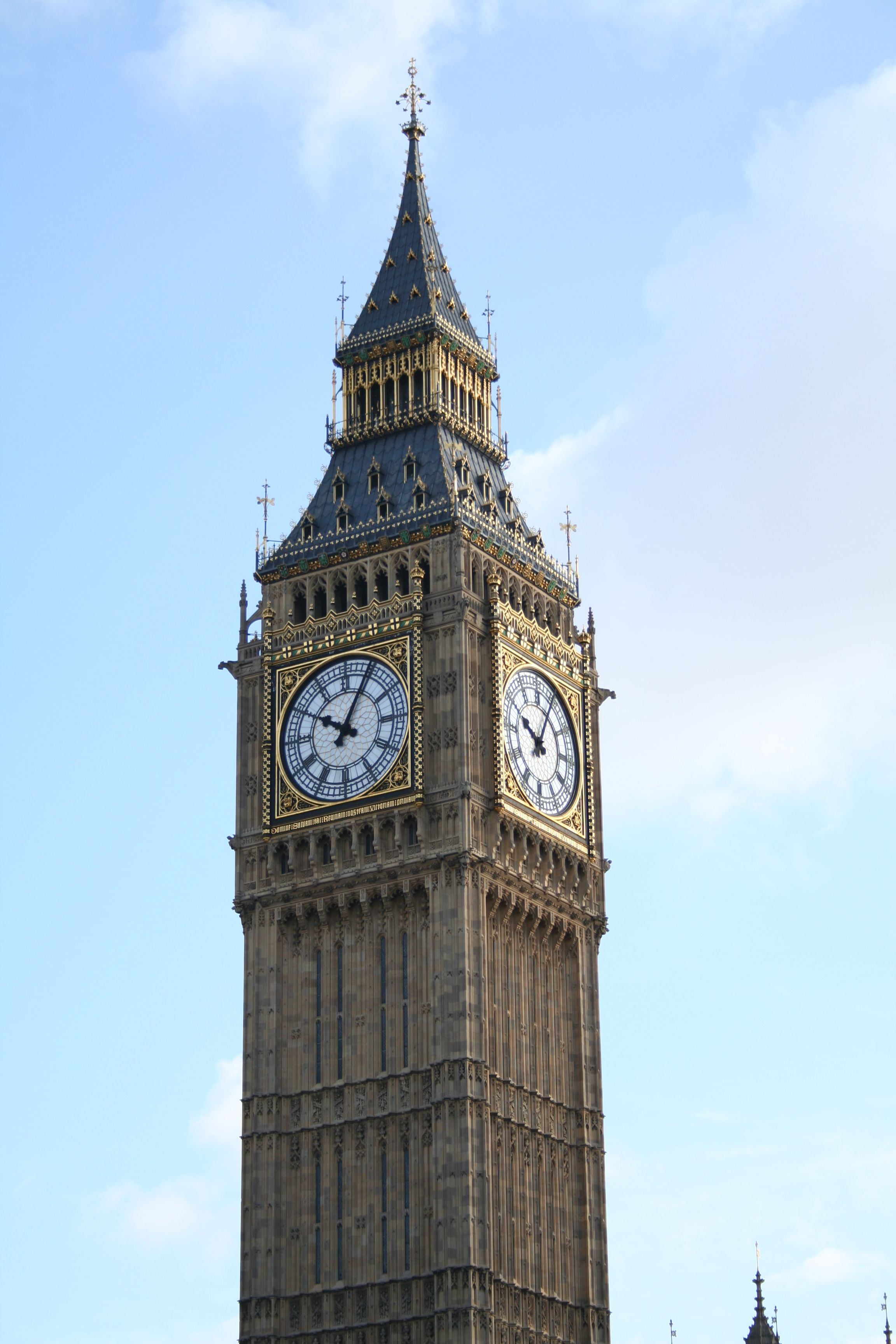 A photograph taken of the clock tower of the Palace of Westminster.